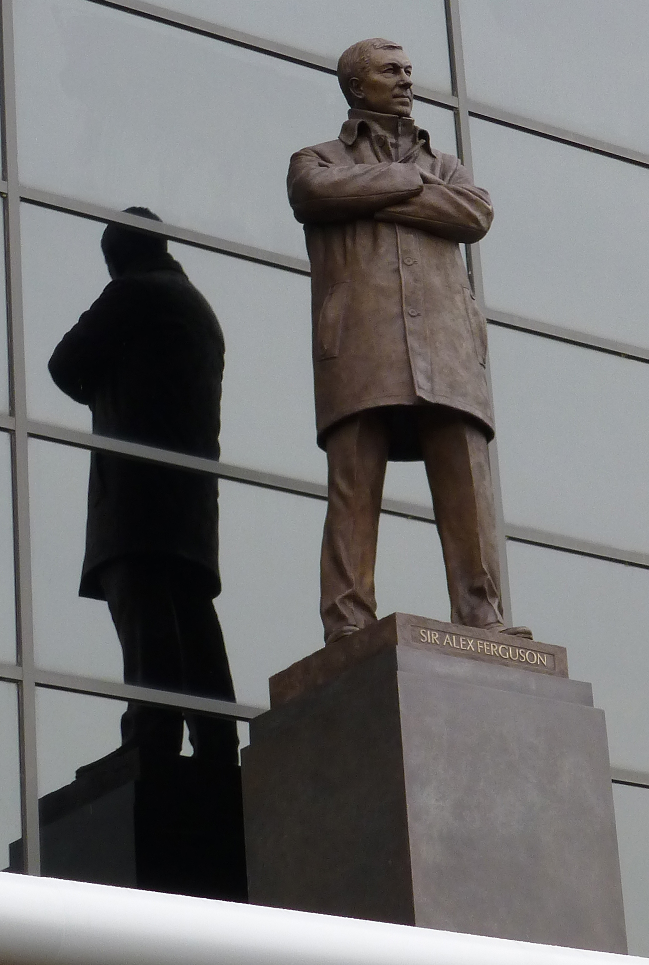 Photo of the Sir Alex Ferguson statue installed outside of Old Trafford on Nov. 24, 2012